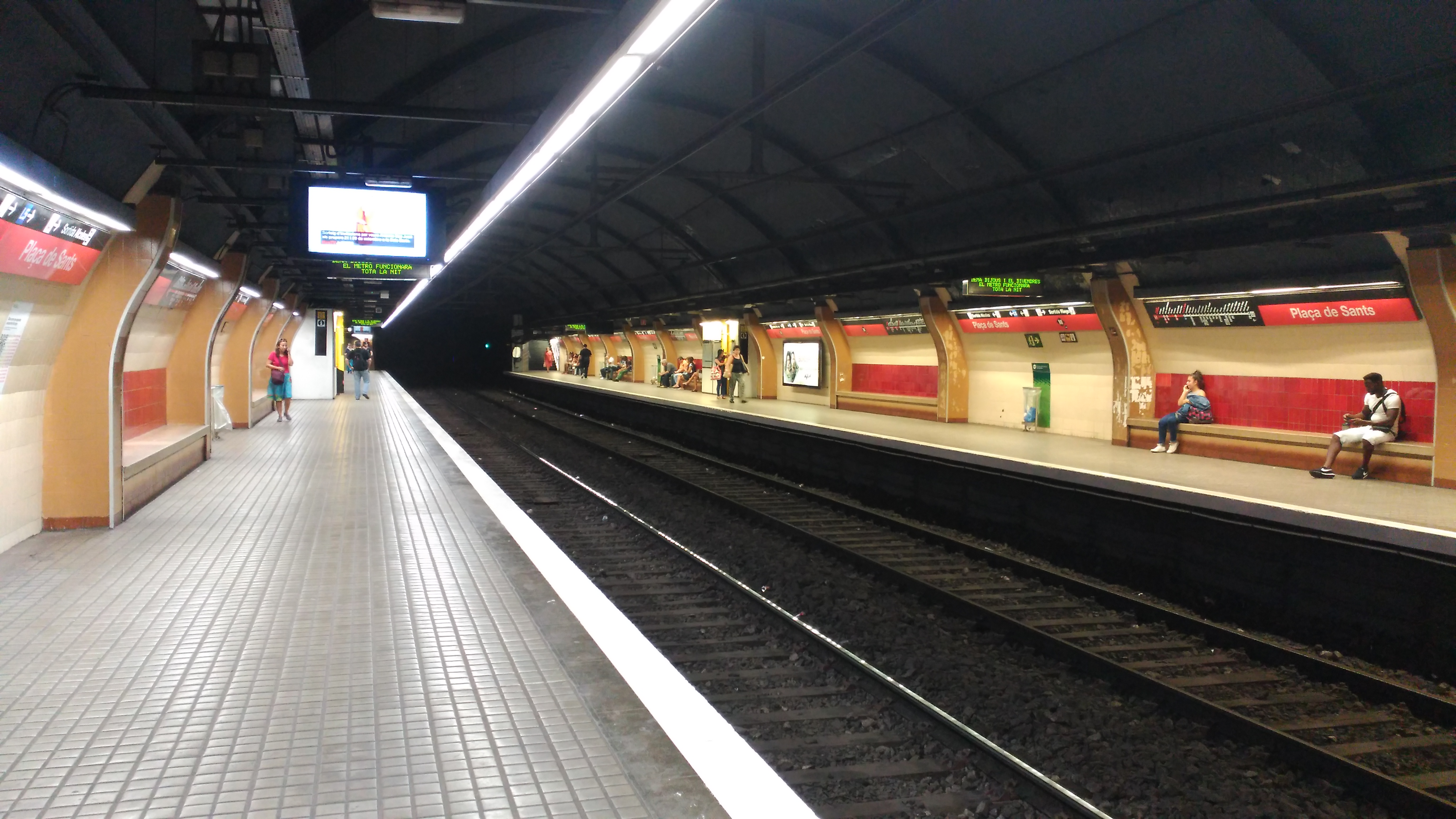 L1 platfoms in Plaça de Sants metro station (Barcelona)